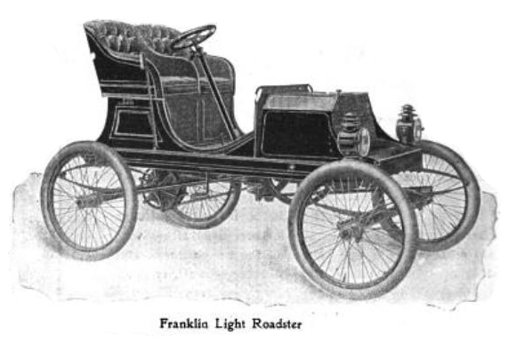 Franklin Roadster - Syracuse, New York - September 1902